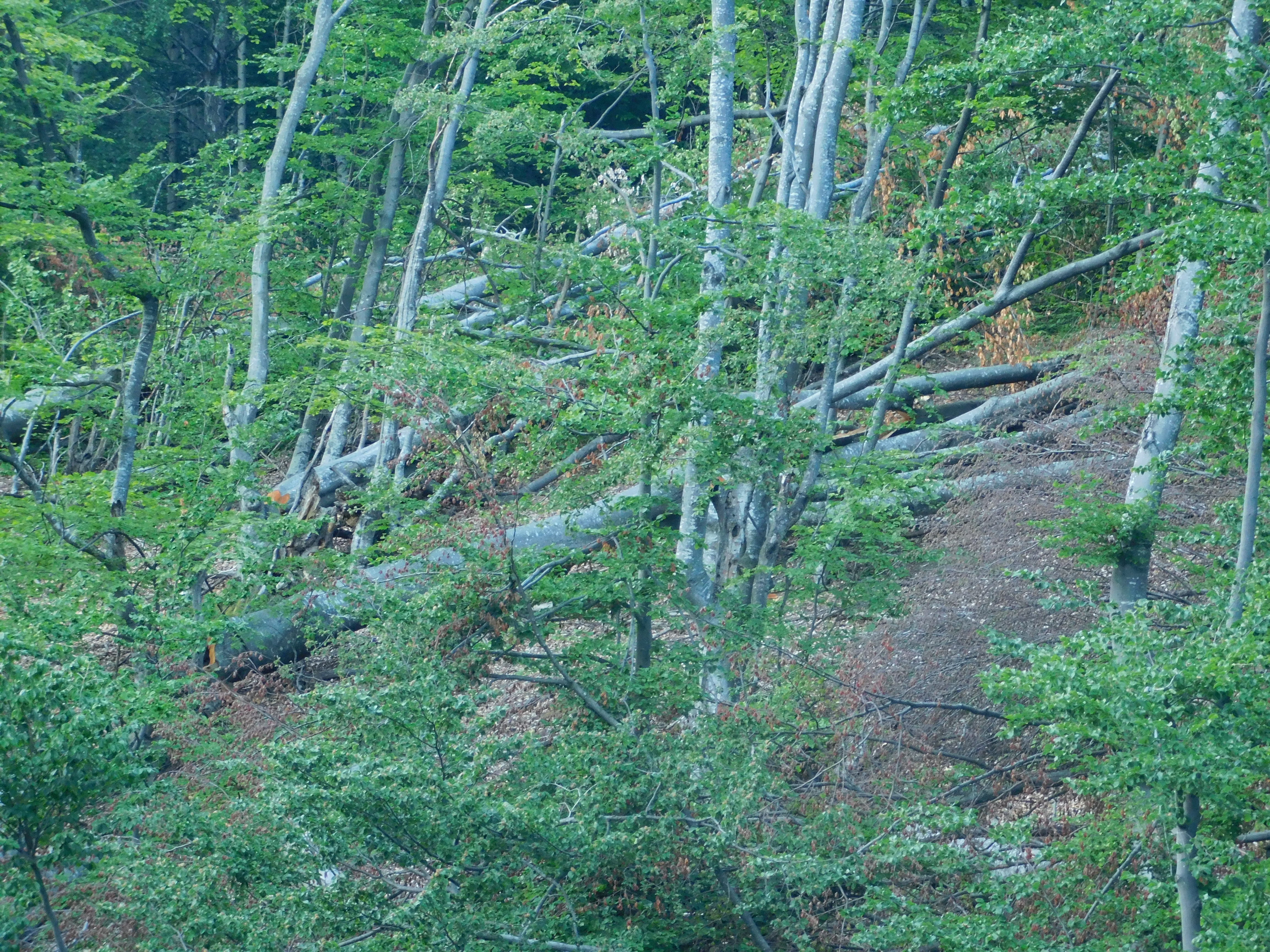 Seča bukovih šuma u Nacionalnom parku Kopaonik. Srbija